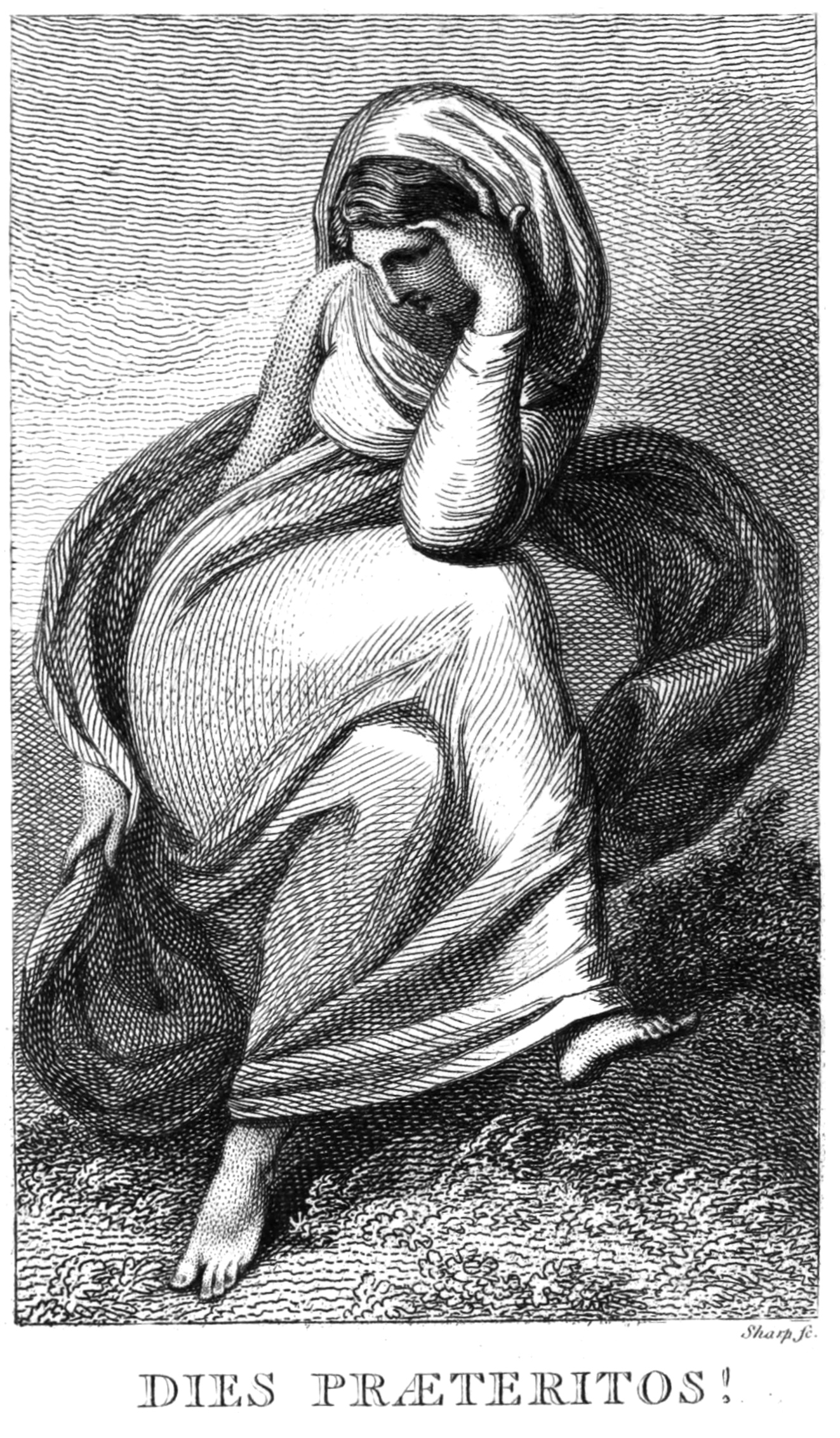 “Dies Praeteritos” (Latin for “Days Gone By”)